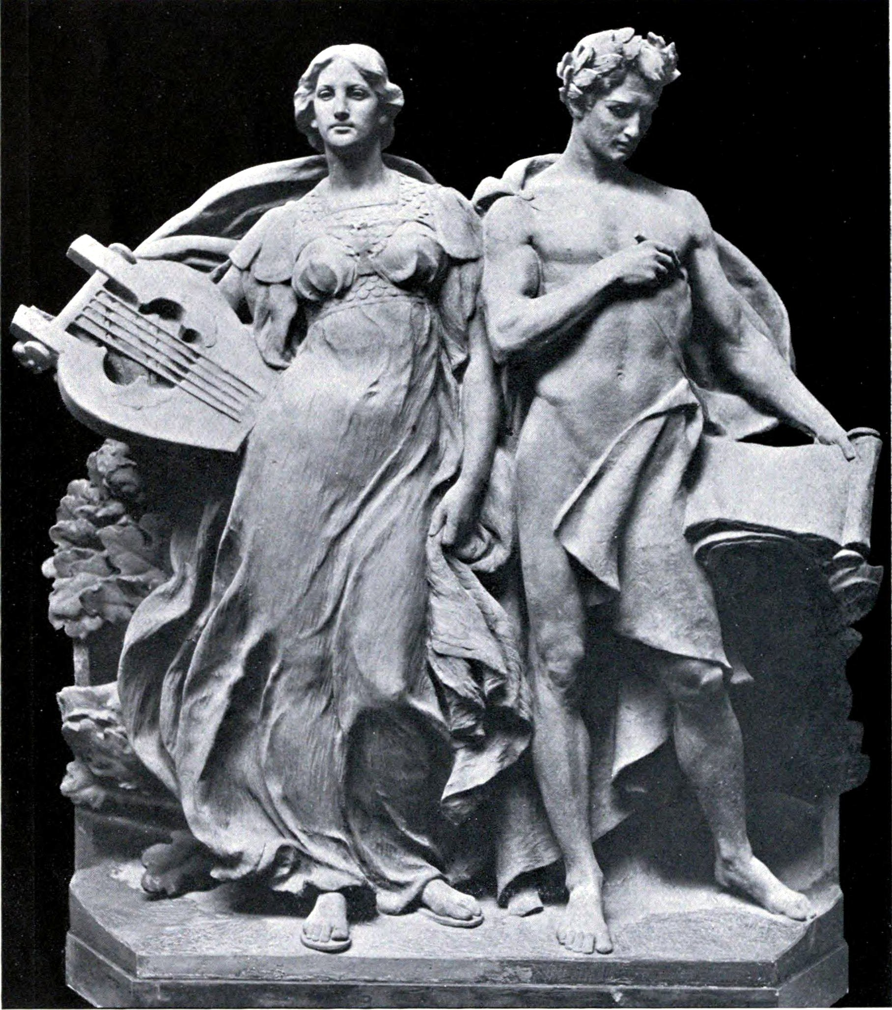 Music and poetry